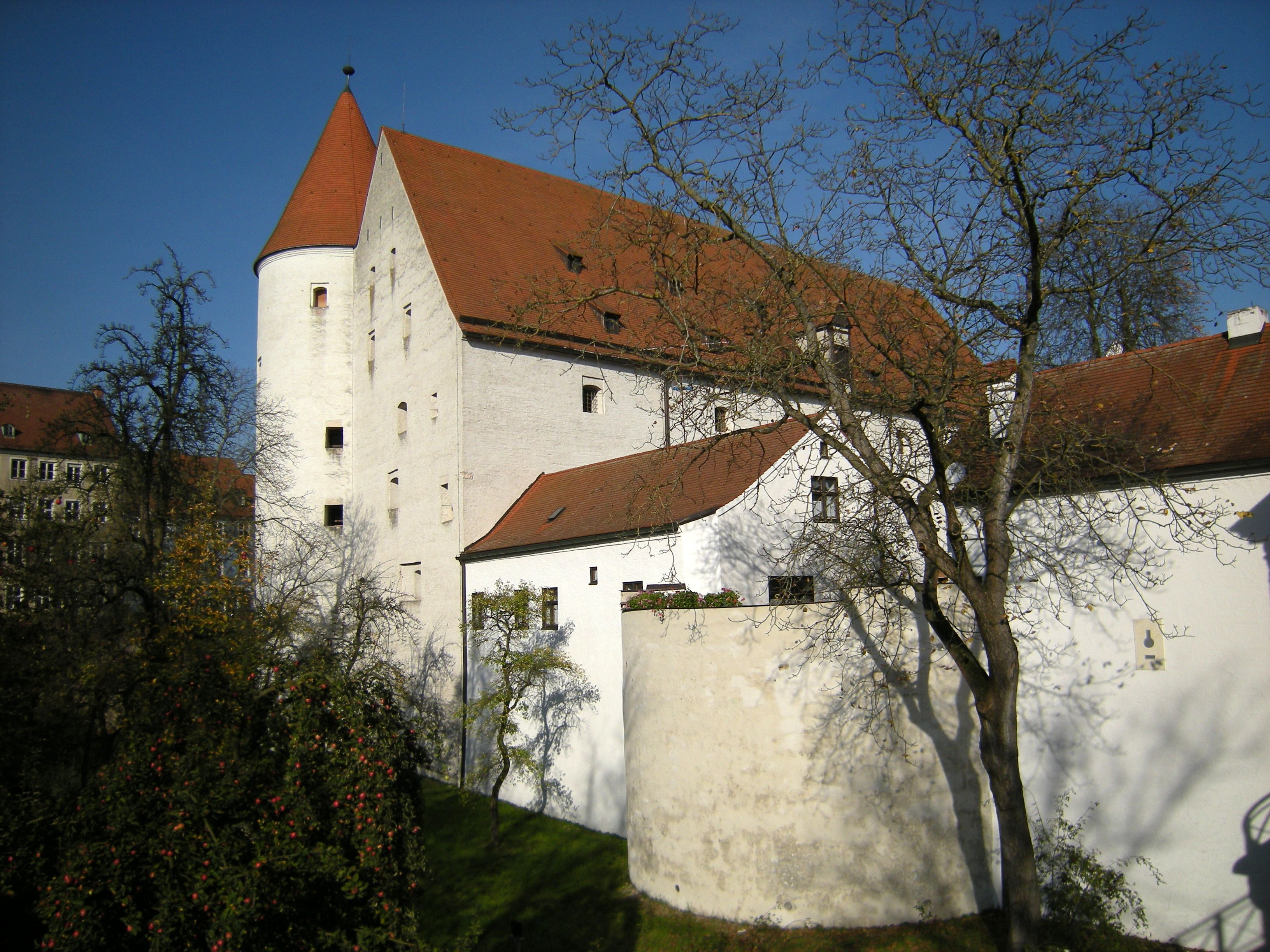 Ingolstadt - New Castle